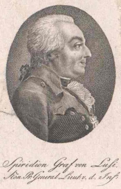 Portrait of Spiridion Louzis (Greek: Σπυρίδωνος Λούζης, Spiridonos Louzis), (Italian: Spiridione Lusi), (German: Spiridion Graf von Lusi) ; ca. 1741 – ca. 1815) who was a Greek scholar, diplomat, politician and naturalized ambassador of Prussia.